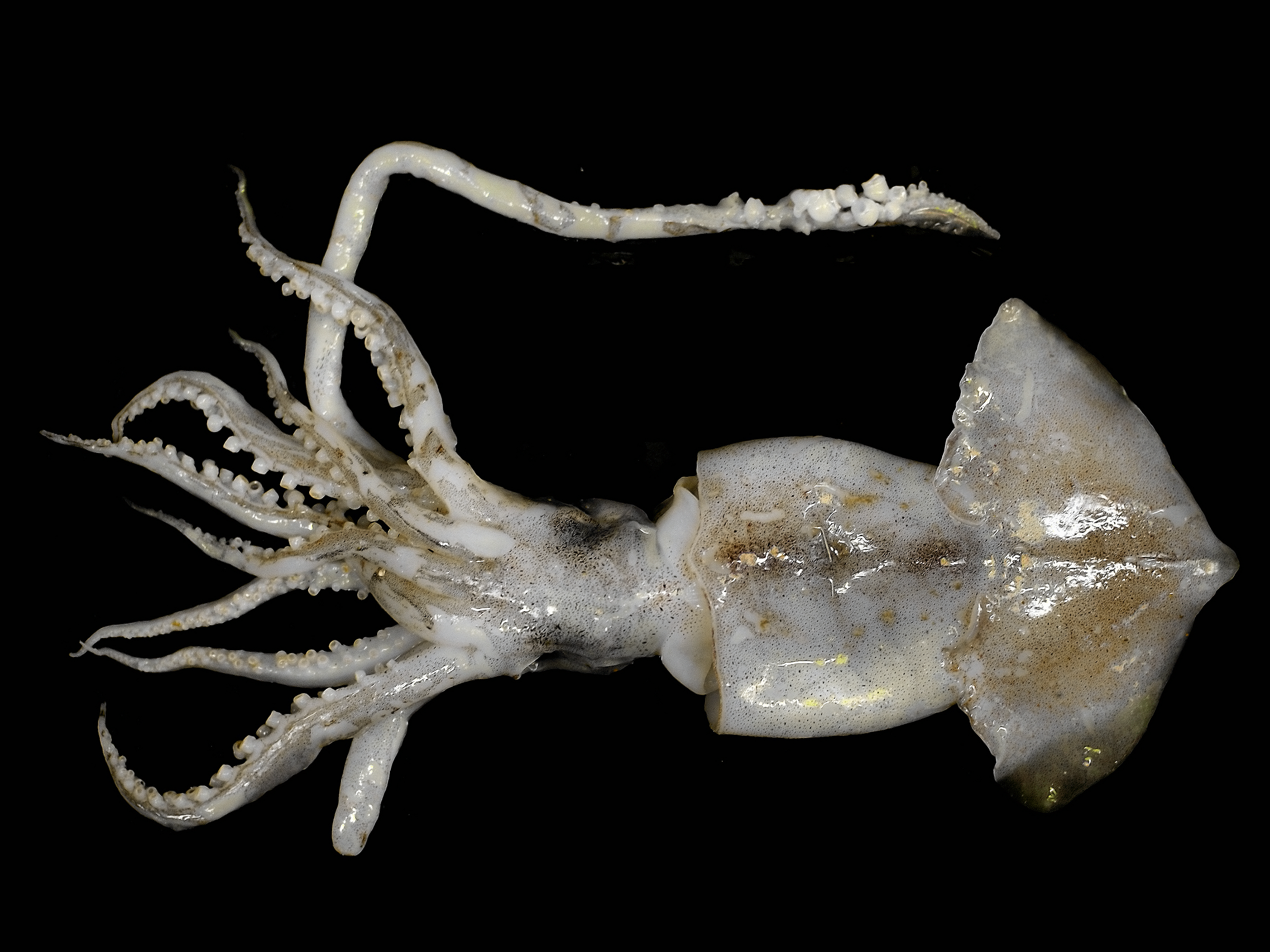 (Lesser Flying Squid) from the Celtic Sea, south west of Lundy.Photograph taken in the lab.